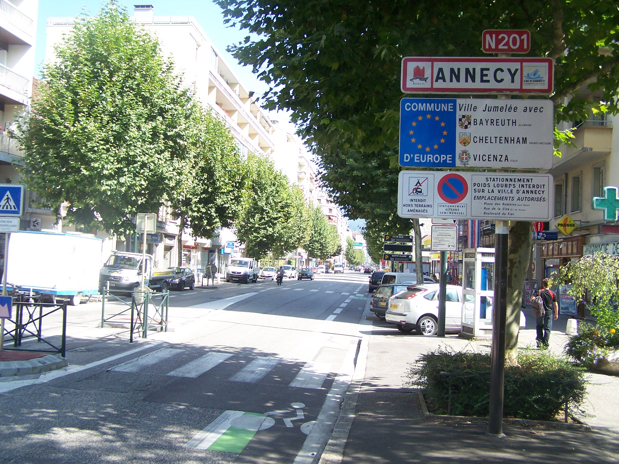 Sign welcoming visitors to the city of Annecy, in Haute-Savoie, France.